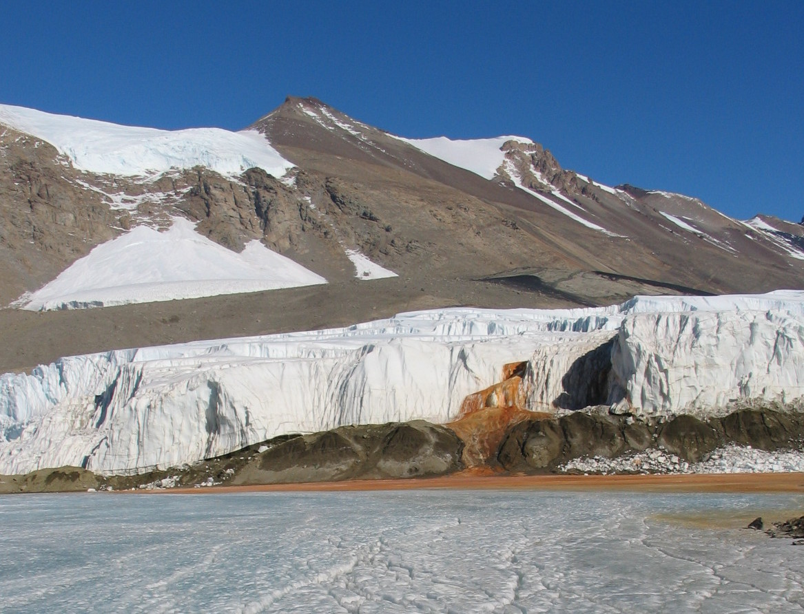 Blood Falls, Victoria Land, Antarctica